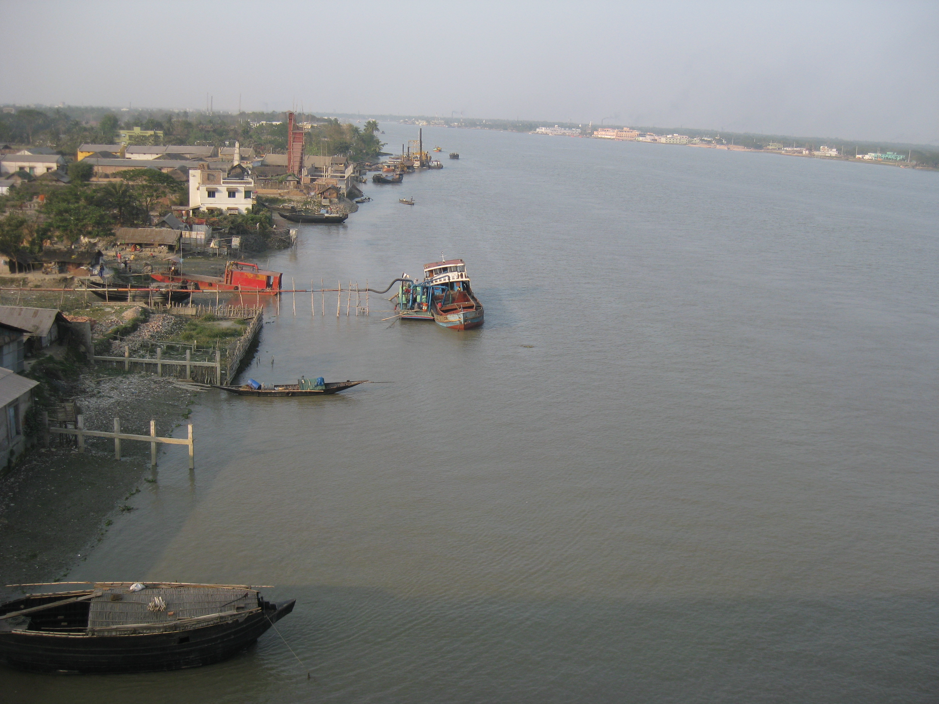 Rupsha Bridge at the Rupsha River in Khulna.